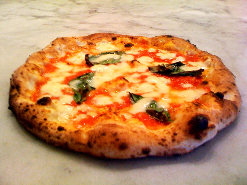 Classic Pizza Margherita, made by Punch Neapolitan Pizza